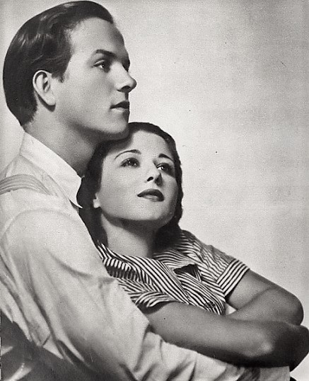 Eric Linden e Sidney Fox in "Afraid to Talk"